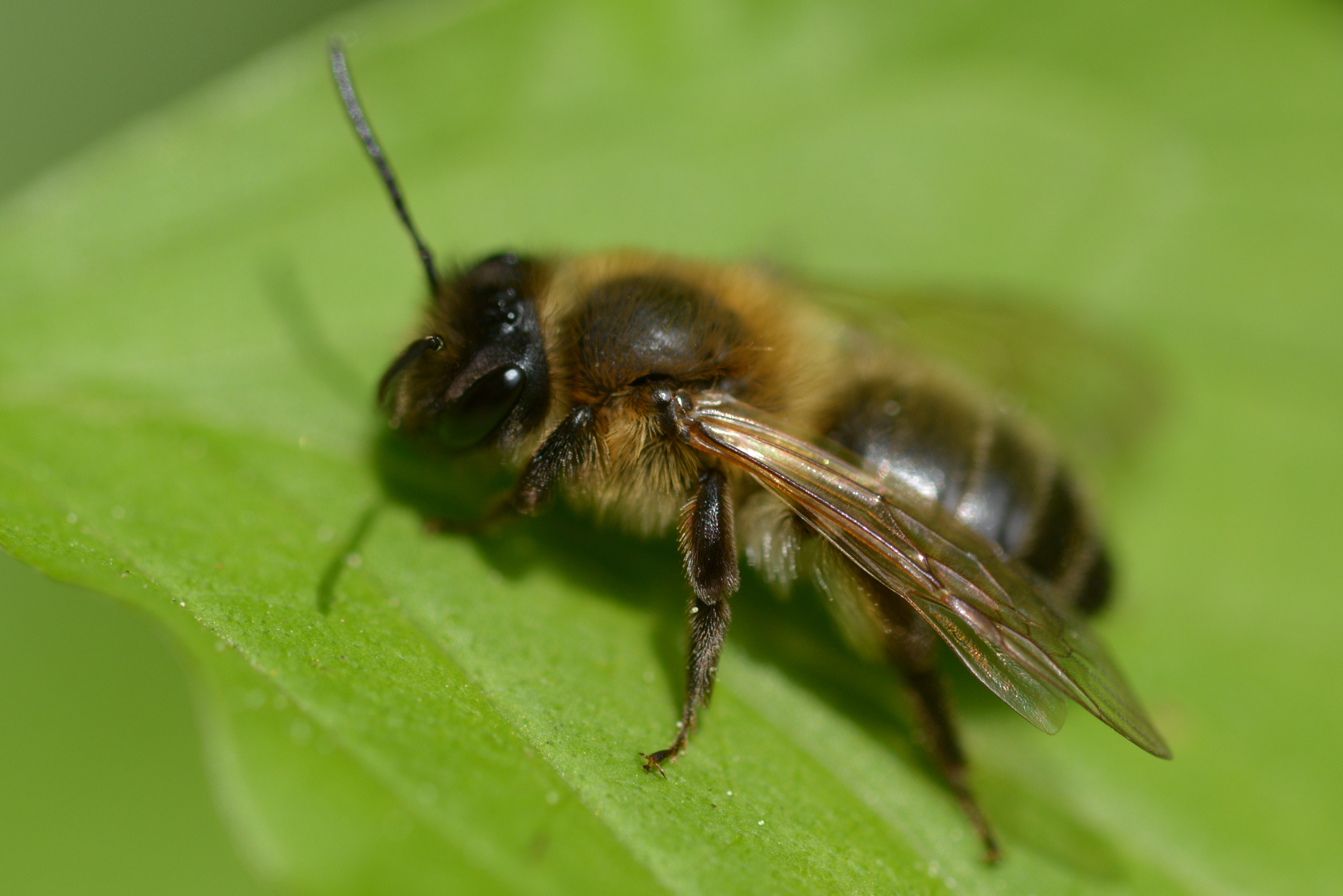 Chocolat mining bee Andrena scotica female in Bahrenfeld, Hamburg.